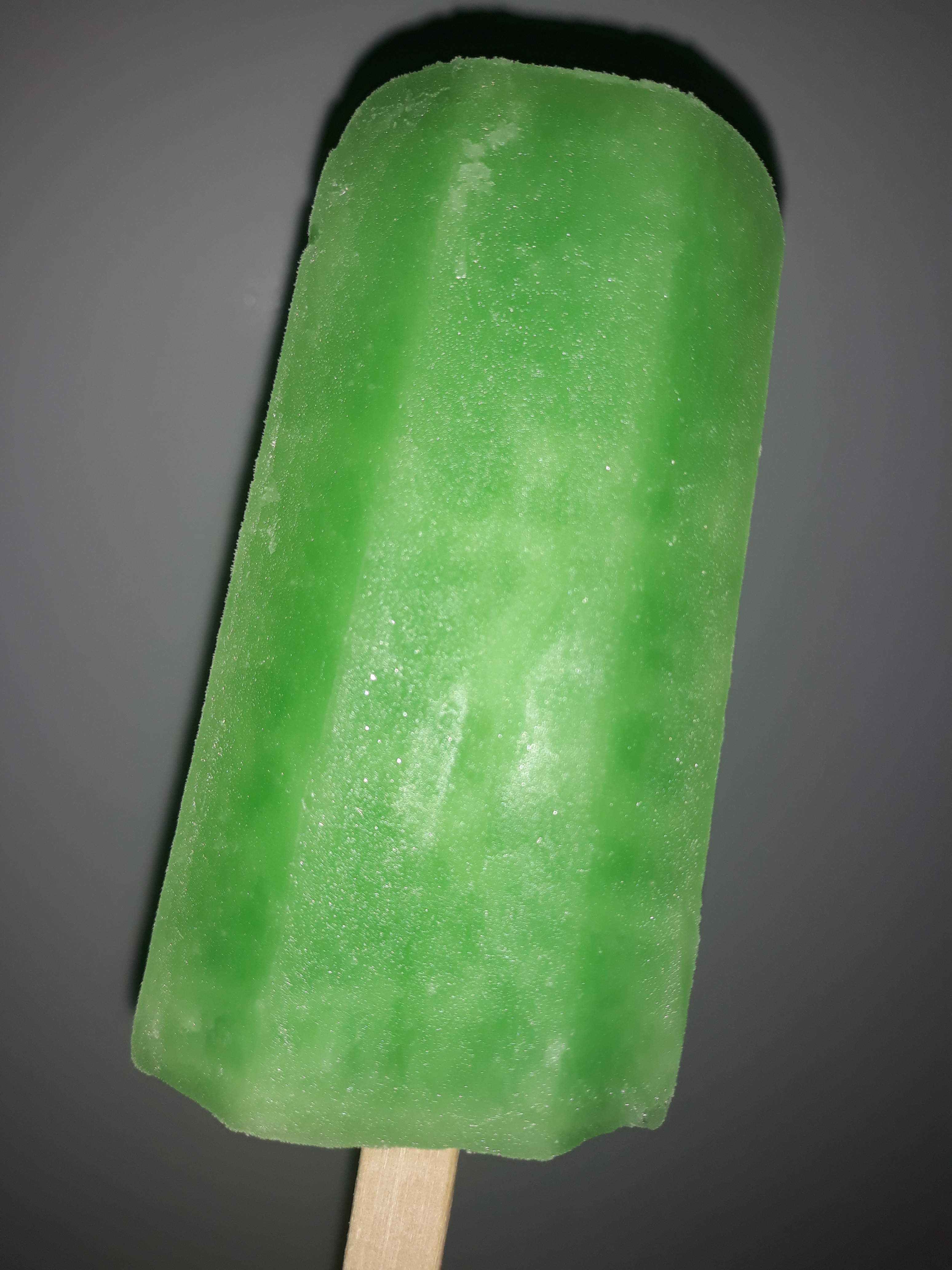 Popsicle with mint